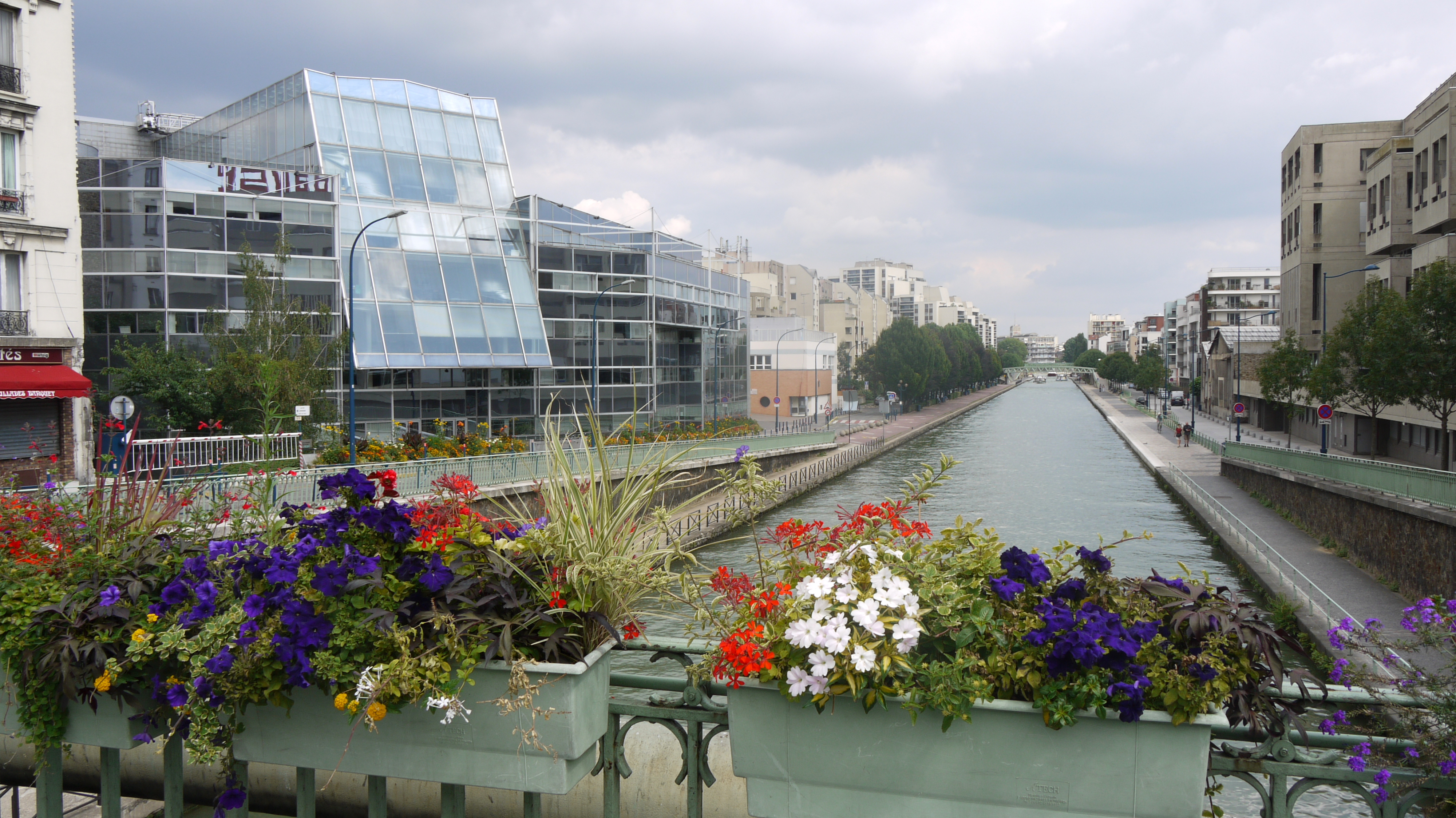 The canal de l'Ourcq in Pantin, Île-de-France, France.